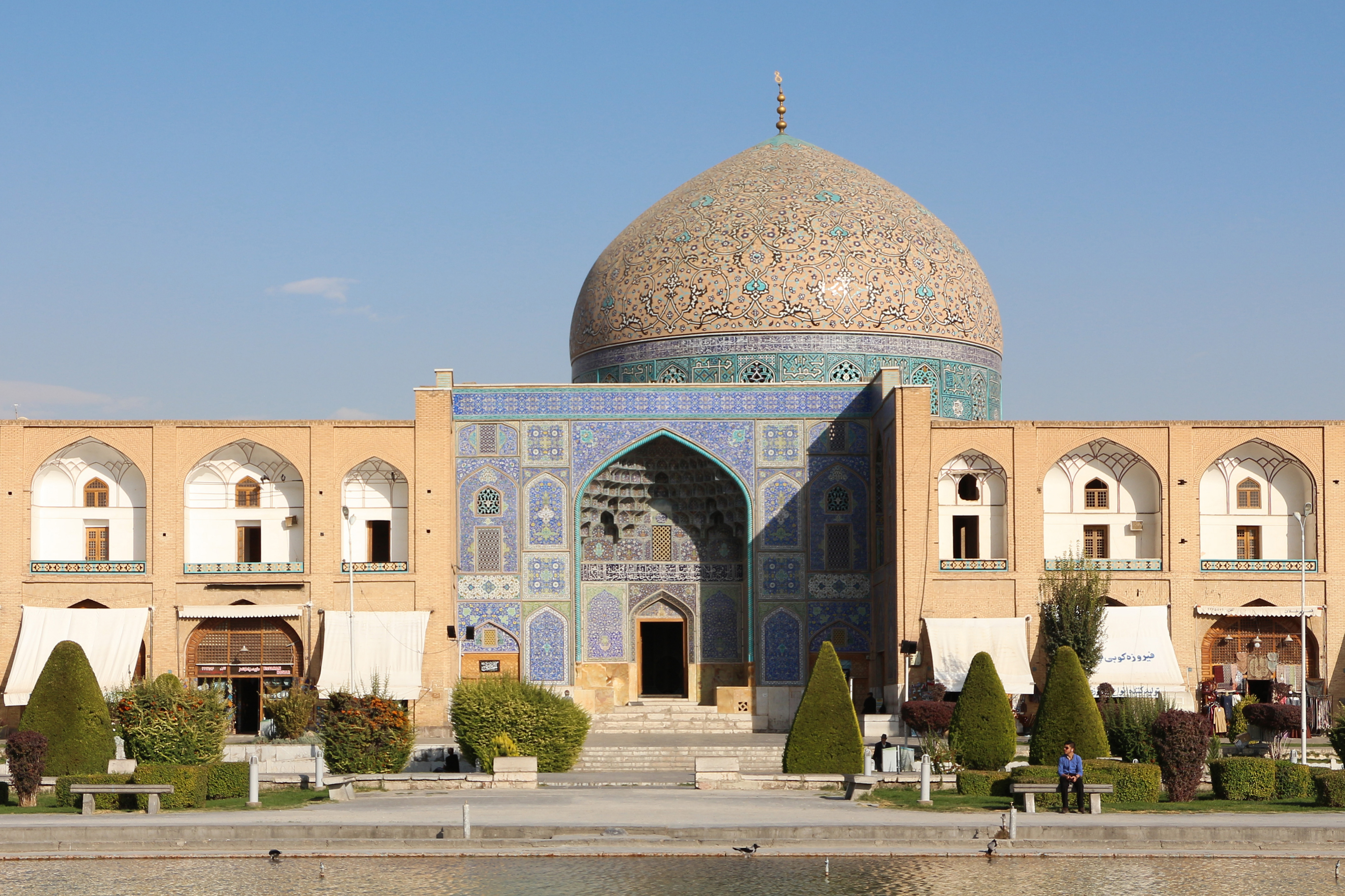 Sheikh Lotfollah Mosque, Isfahan, Iran